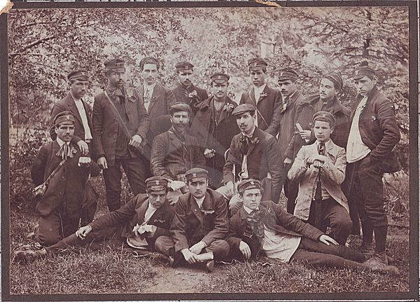 Dame Gruev and his Students in Shtip